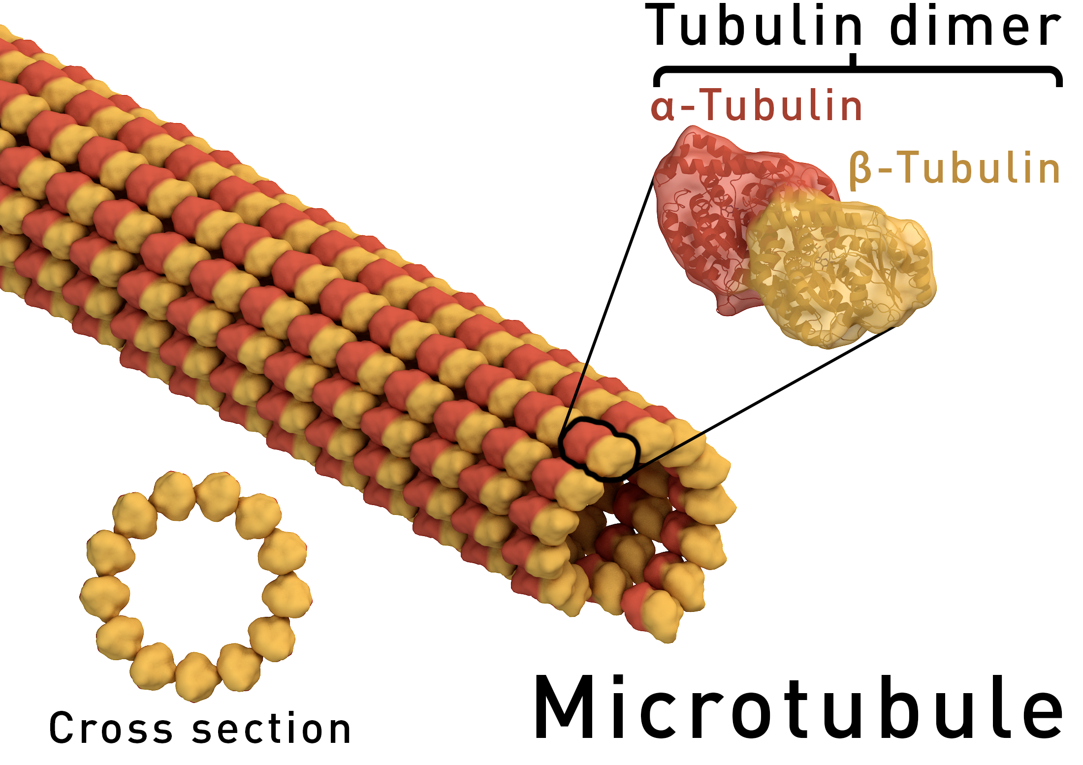 Diagram showing a microtubule and the alpha/beta-tubulin heterodimer it's being constructed from.